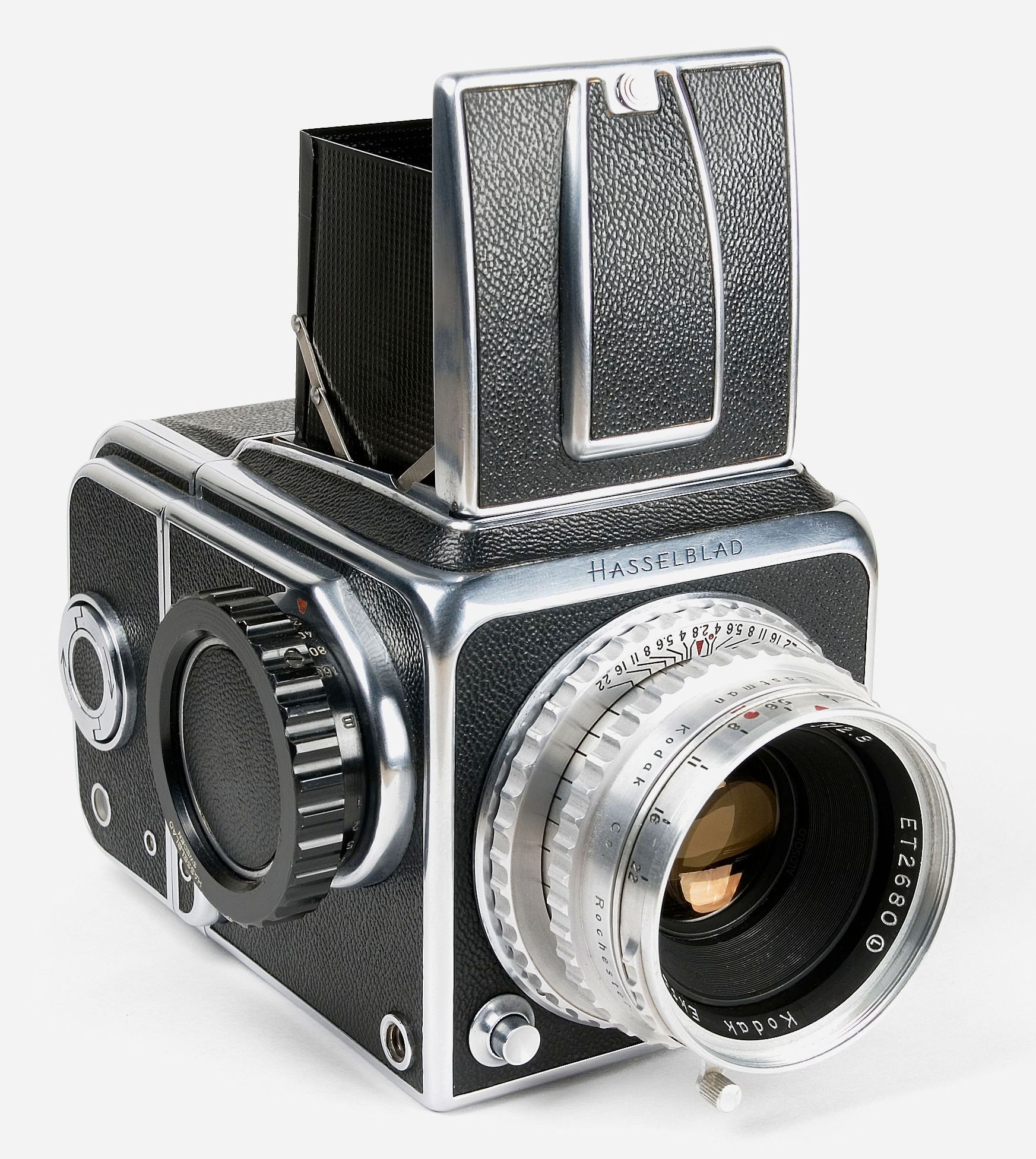 First Hasselblad camera model 1600F with Kodak Ektar lens.